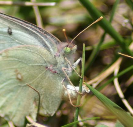 An albino female Orange Sulphur, (Colias eurytheme) laying an egg.